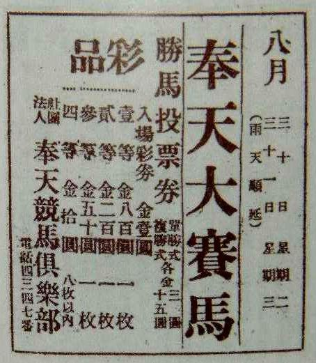 Advertisement for By Mukden Horse Racing Club